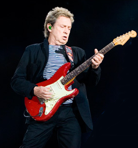 Andy Summers in a live show in Marseille.